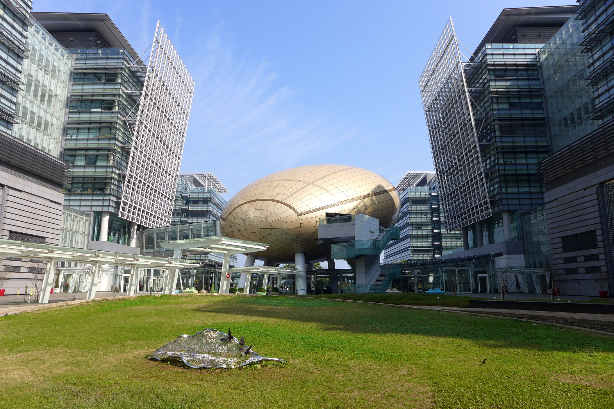 Hong Kong Science Park